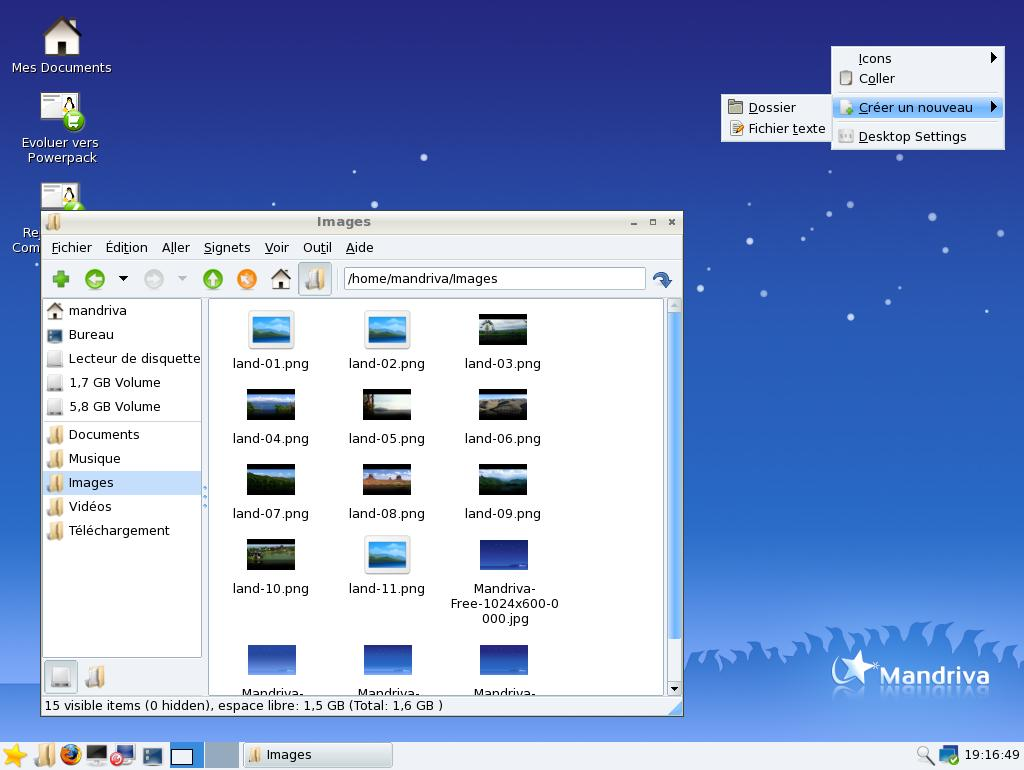 Screenshot of the desktop environment LXDE on Mandriva 2009 with PCMan File Manager running.